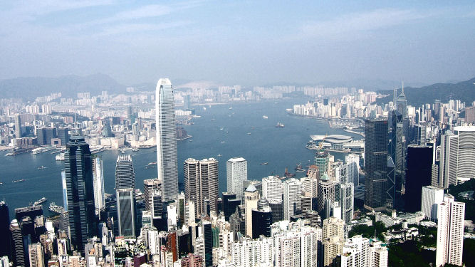 Victoria Peak, Hong Kong